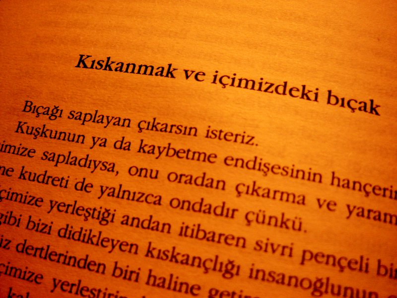 jeaoulsy and the knife in our inside!